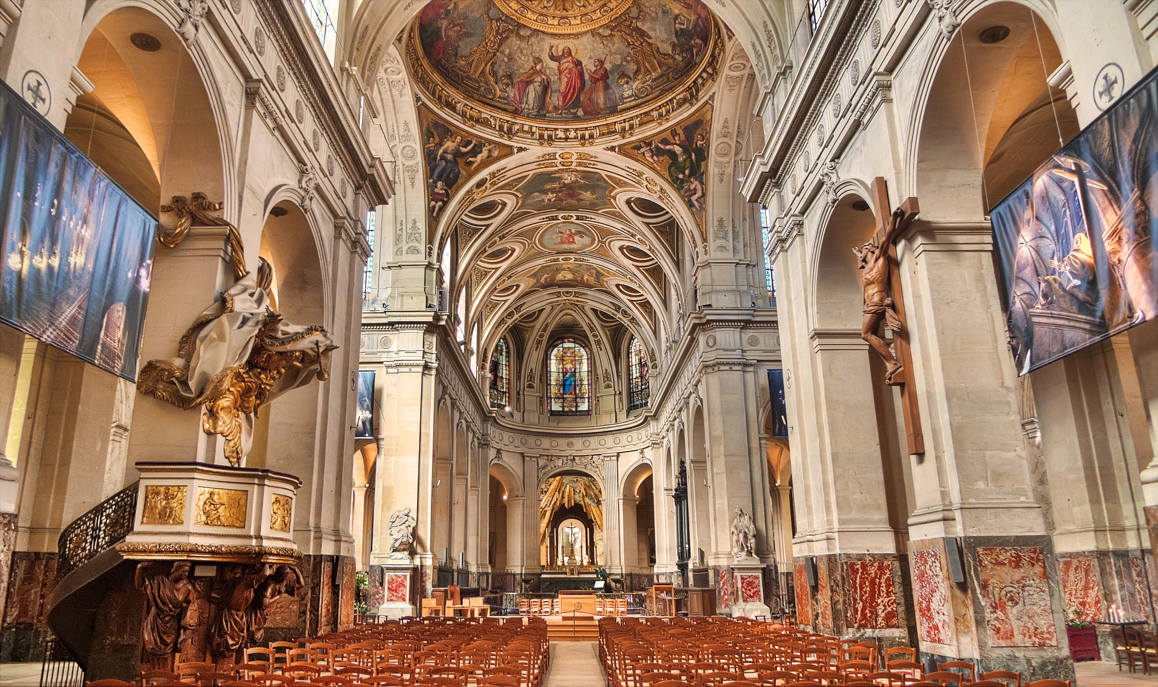 Saint-Roch church in Paris.